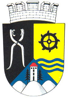 Municipal coat of arms of Janov nad Nisou village, Jablonec nad Nisou District, Czech Republic. COA approved by Ministry of Interior in 1928